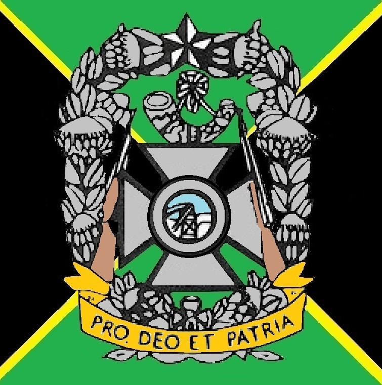 Witwatersrand Rifles Regiment Insignia